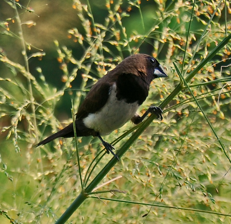 Lonchura leucogastroides. From Bogor, West Java, Indonesia